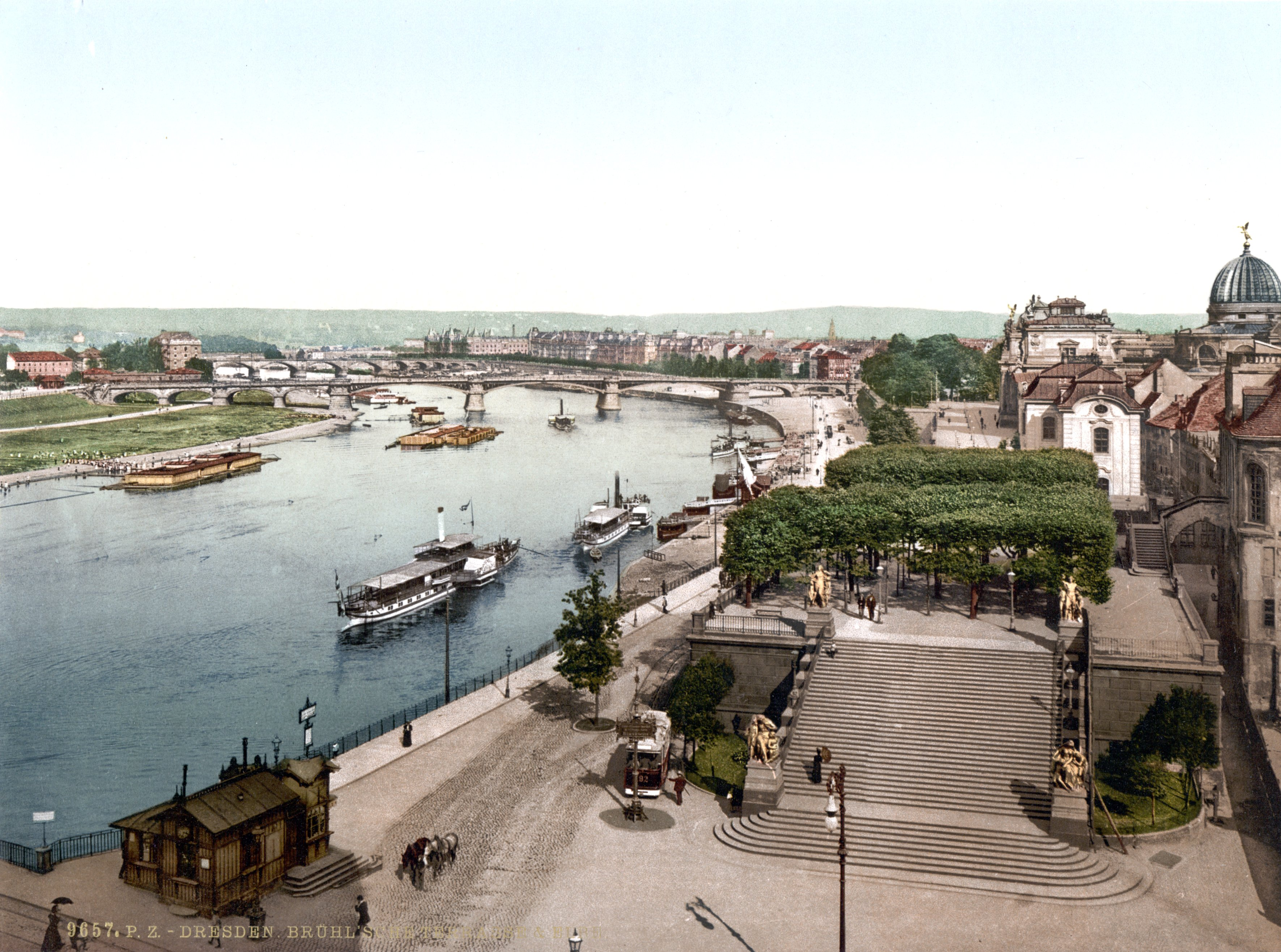 Dresden (Saxony, Germany) - Brühlsche Terrasse